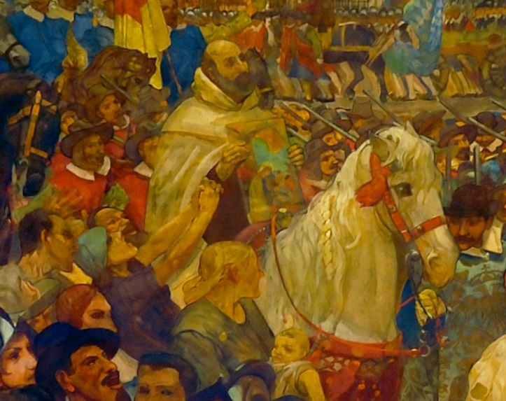 Rome, Santa Maria della Vittoria, fresco in the apse by Luigi Serra, 1878 (detail): Dominicus a Jesu Maria with the miraculous image entering Prague in triumph after the Battle of White Mountain 1620